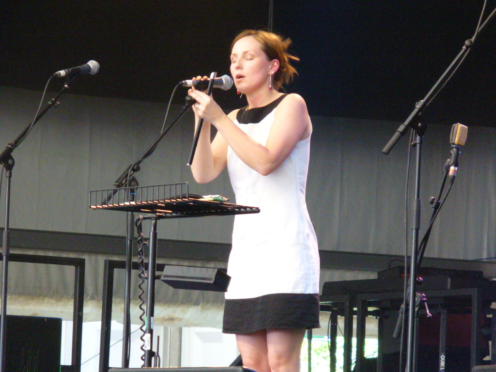 Julie Fowlis live in concert.